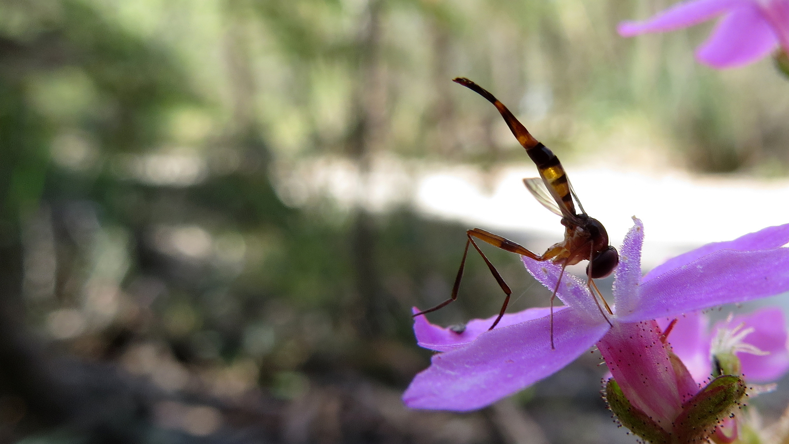 A fly with a long tapered ovipositor and dark stripes on its abdomen. Stylogaster macalpini, family Conopidae on a Stylidium flower. Hanging Mountain, Deua National Park, NSW, Australia, February 2014.